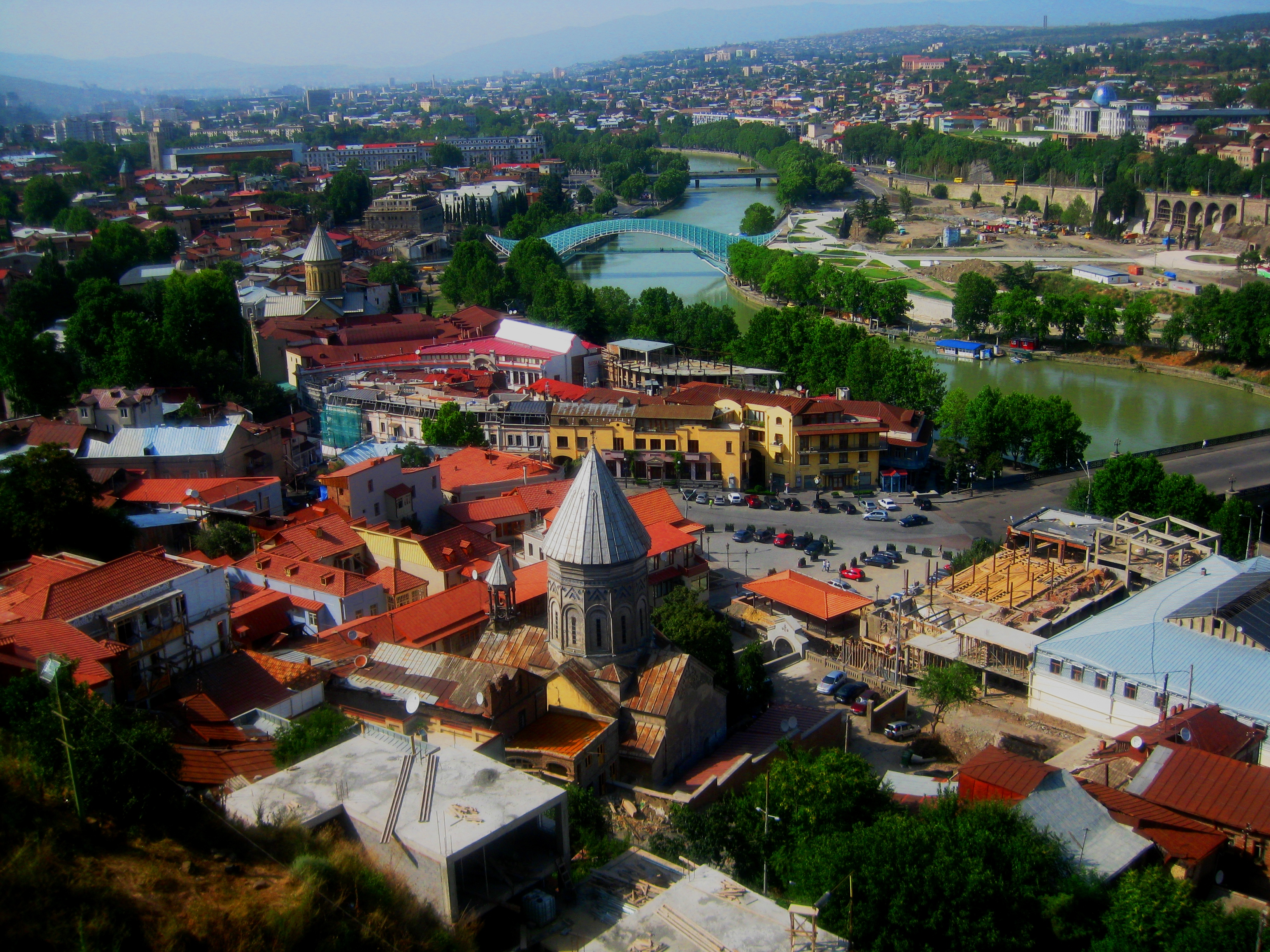 administrative district in Tbilisi